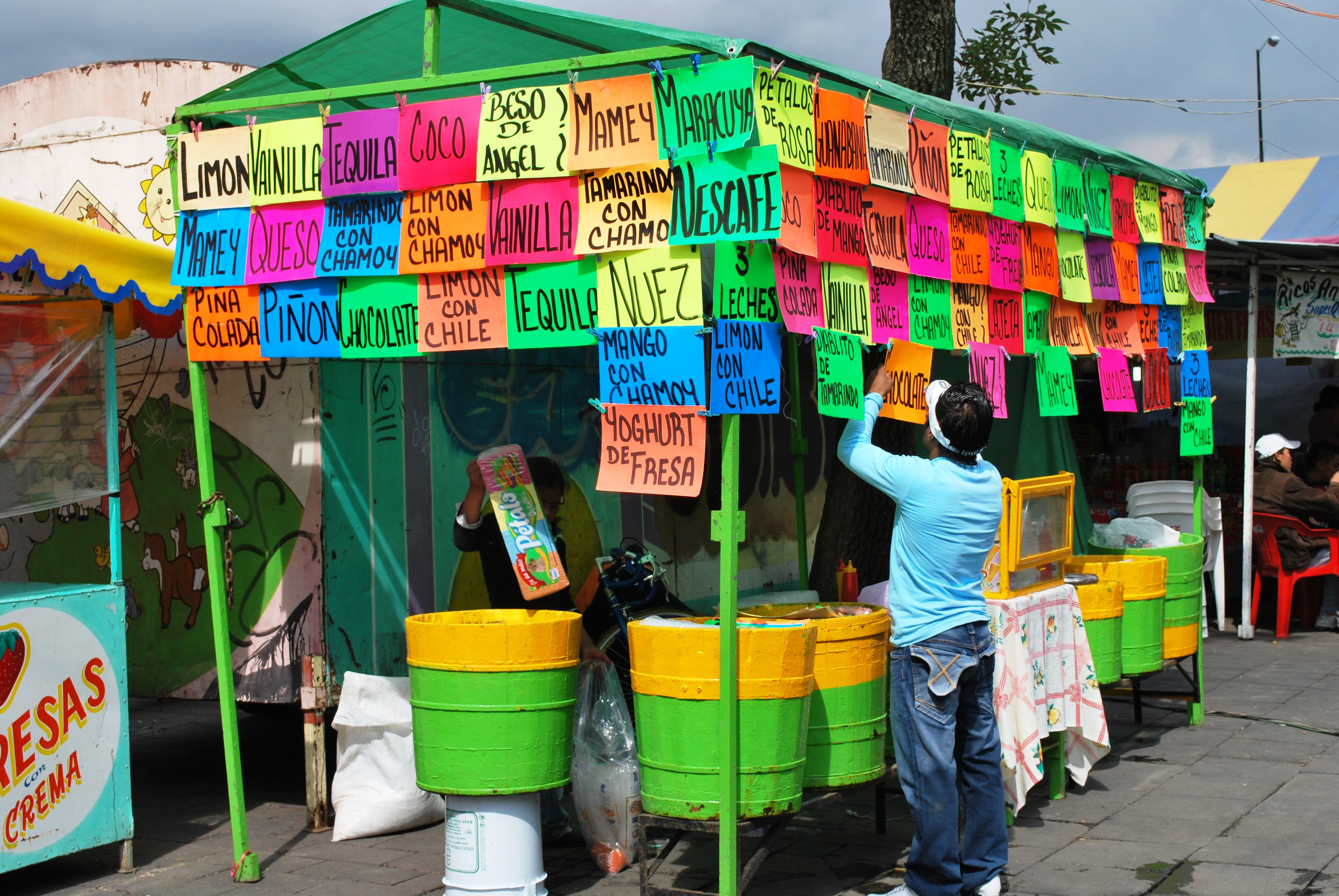 Ice cream vendor in Xochimilco, Mexico City